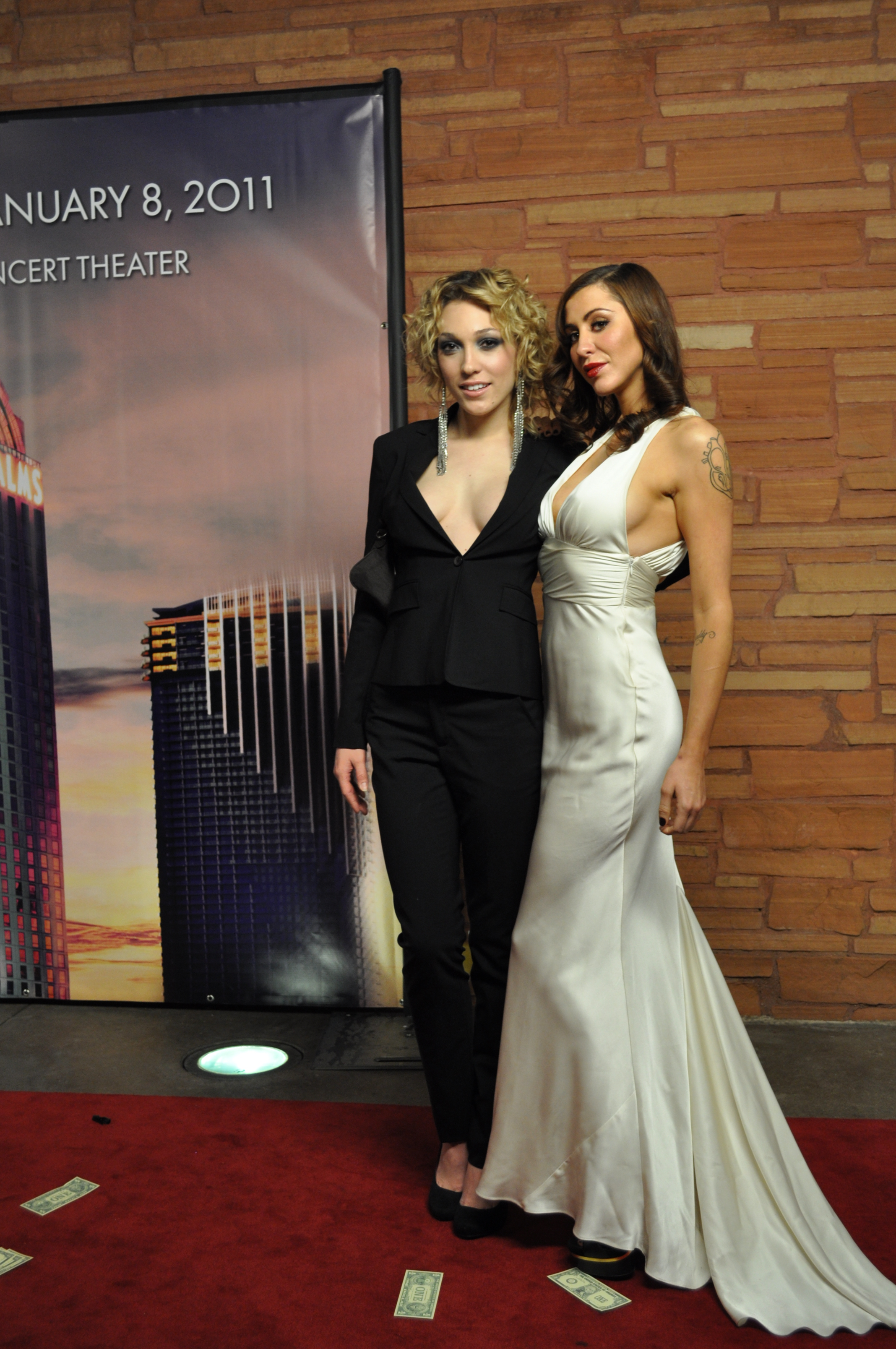 Lily LaBeau and Princess Donna at the 2011 AVN Awards